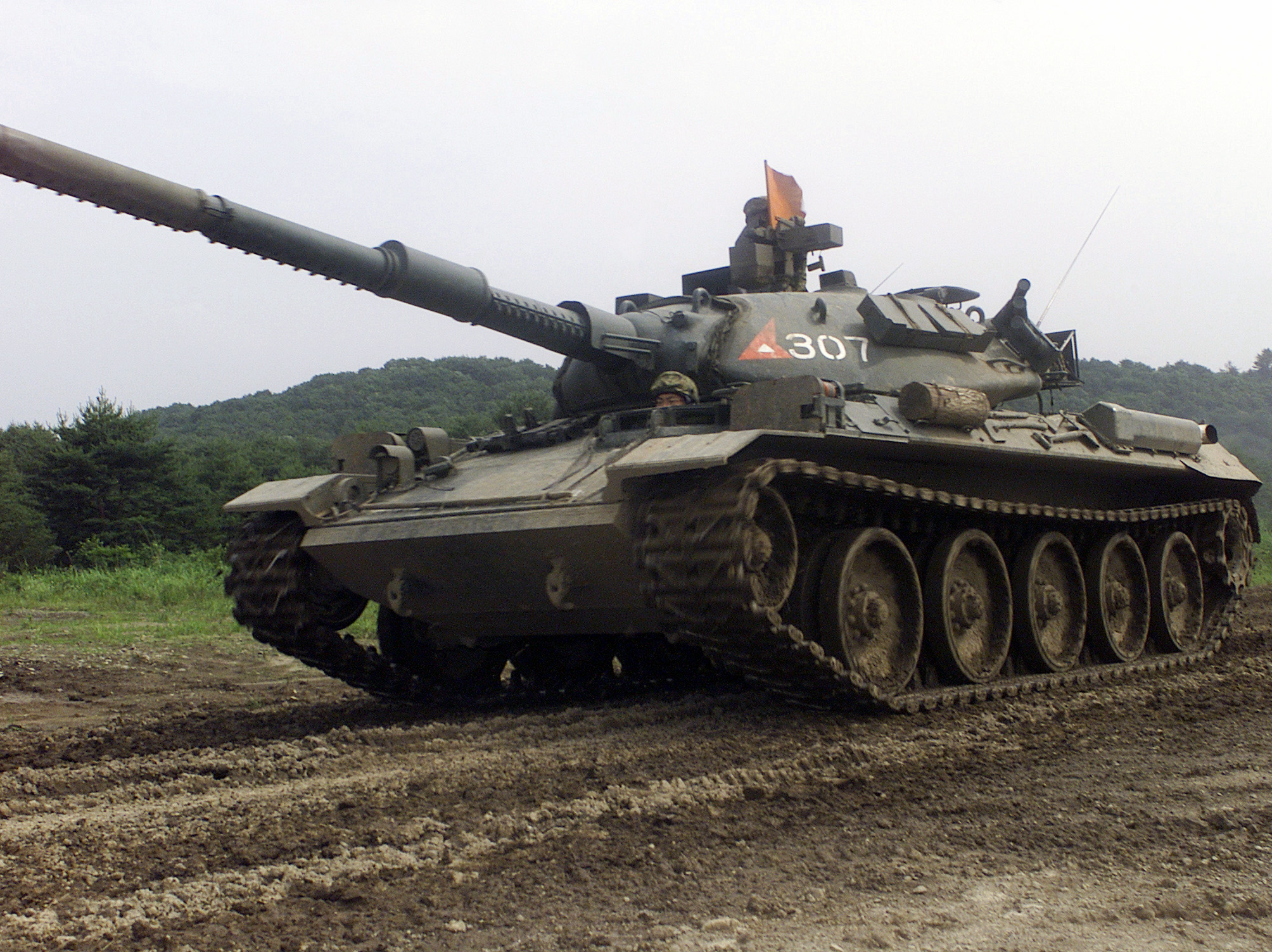 Japanese Ground Self Defense Force Soldiers relocate a Mitsubishi Type 74 Main Battle Tank for a static display during the opening ceremonies welcoming US Marines as they prepare for a live fire exercise at Ojojihara Maneuvering Training Area, Miyagi Prefecture, Japan. In coordination with the Japanese Ground Self Defense Force, 12th Marines from Camp Hansen Okinawa Japan, and 11th Marines India Battery from 29 Palms, California, will conduct live-fire training to sharpen their mission readiness and firing skills with the M198 155mm Medium Towed Howitzer.